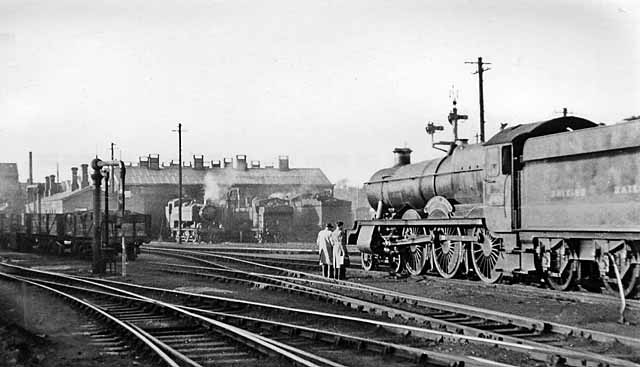 Exeter St David's Locomotive Depot. View northwards to the Shed, which was relatively small with only four roads. Coded 83C in the Newton Abbot Division, it was situated behind the west side of St David's Station and had an allocation of 33 in 1950, which were engaged mainly locally there being only four 4-6-0s on the list: one of these, No. 5976 'Ashwicke Hall' features on the right. The Depot closed to steam on 14/10/63, but has remained as a Diesel stabling point.